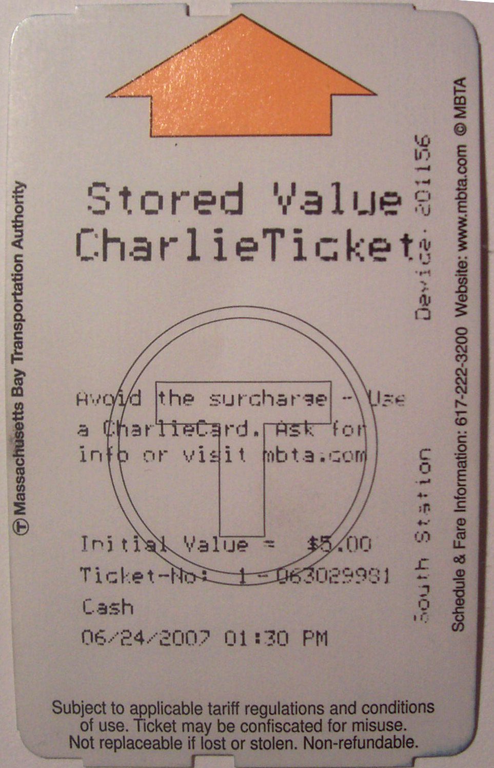 CharlieTicket, MBTA fare ticket, used in Boston, USA.